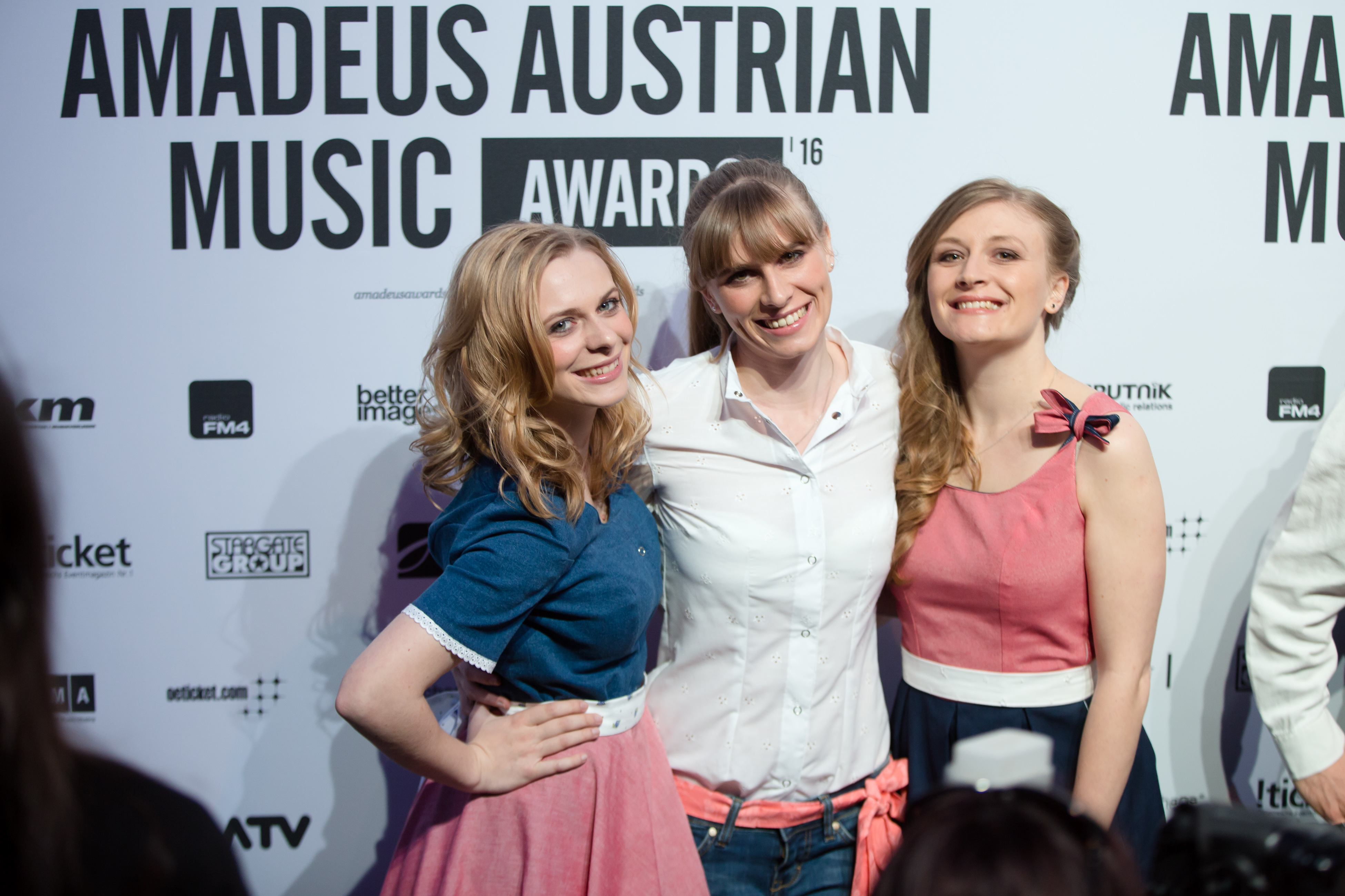 The Poxrucker Sisters at the Amadeus Austrian Music Award 2015 at Volkstheater in Vienna